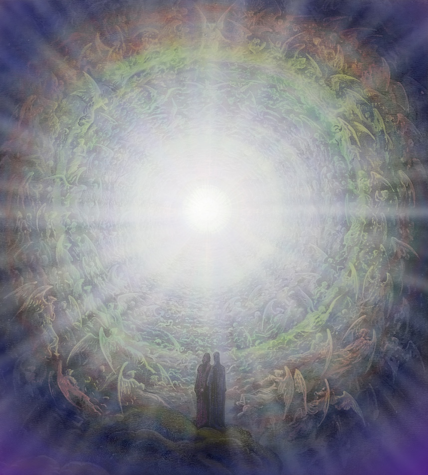 Color modifications of an 1867 Public Domain image by Gustave Doré, of Dante Alighieri and Beatrice Portinari gazing into the Empyrean Light.